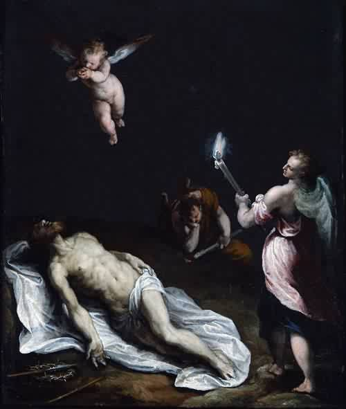 Dead Christ Mourned by Angels